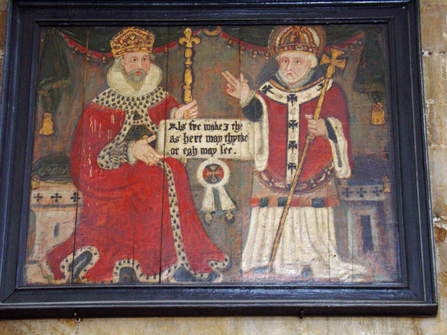 Painting: Beverley Minster, Beverley, East Riding of Yorkshire, England.A naïve 16th century depiction of Athelstan and John of Beverley.